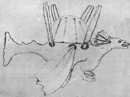 Sketch of a flying machine "from the treatise Dragon Volant" by Tito Livio Burattini